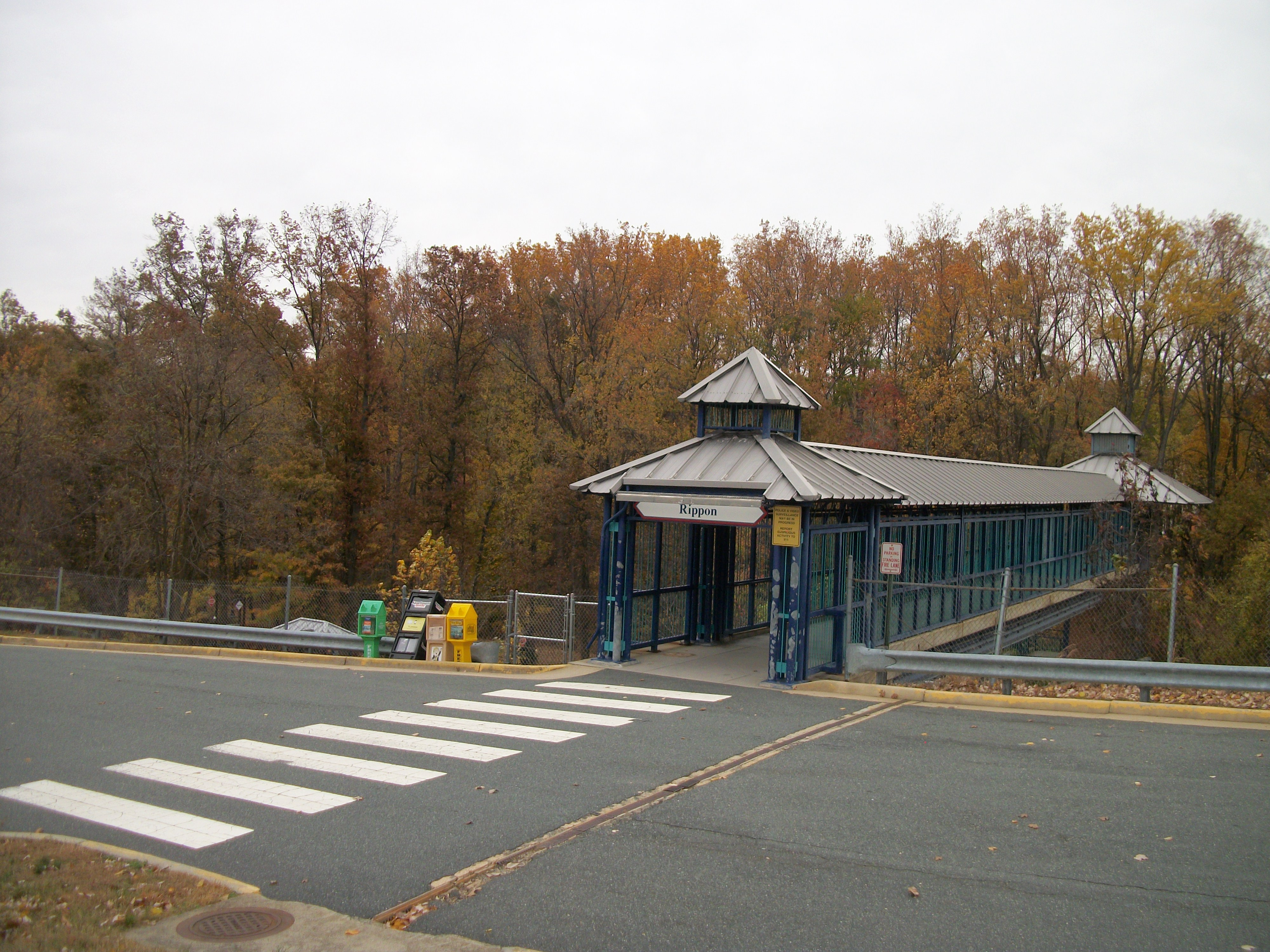 Angled-view of the footbridge at Rippon VRE station in Woodbridge, Virginia.